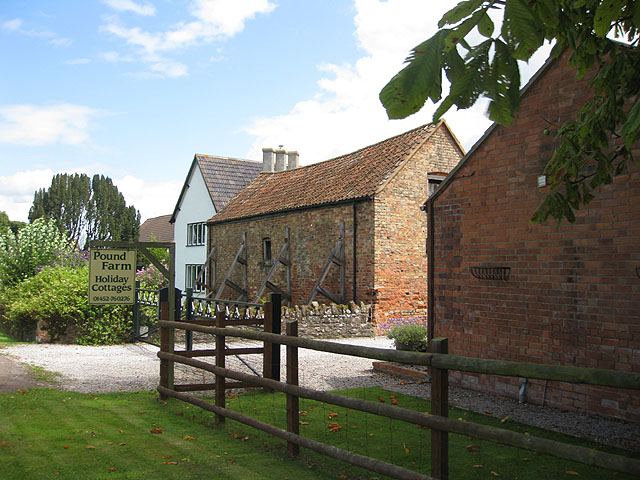 Holiday cottage entrance Pound Farm, by the A48.